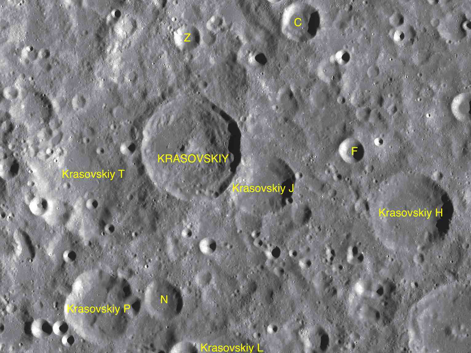 Part of the chart LAC-68 used for the presentation